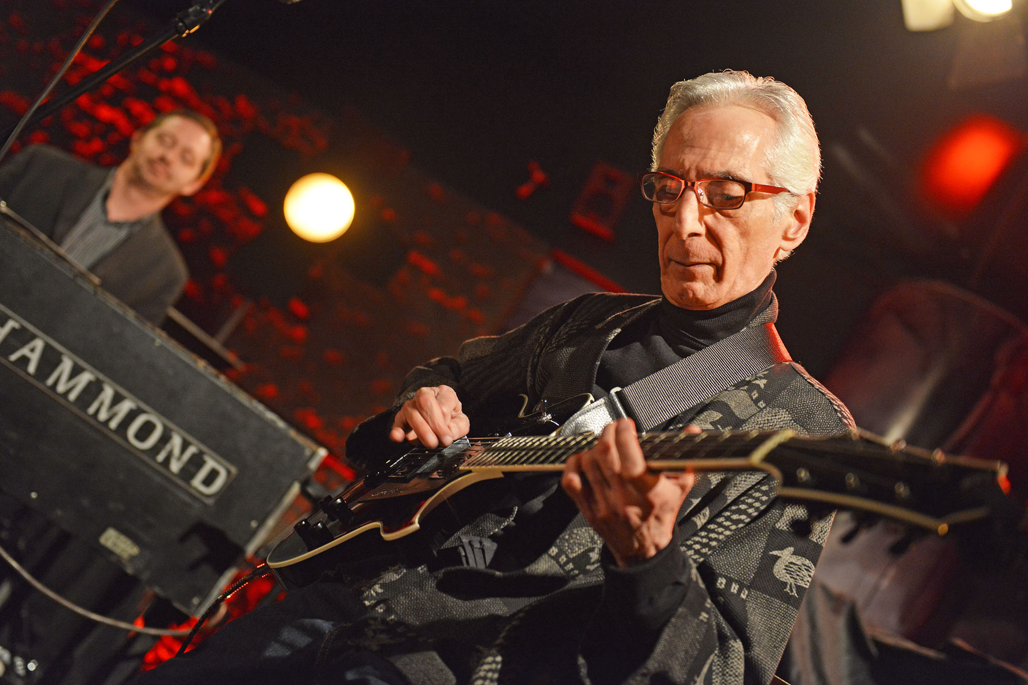 Pat Martino Trio during Bielska Zadymka Jazzowa 2004 (Lotos Jazz Festival) 2014, Bielsko-Biala, Poland